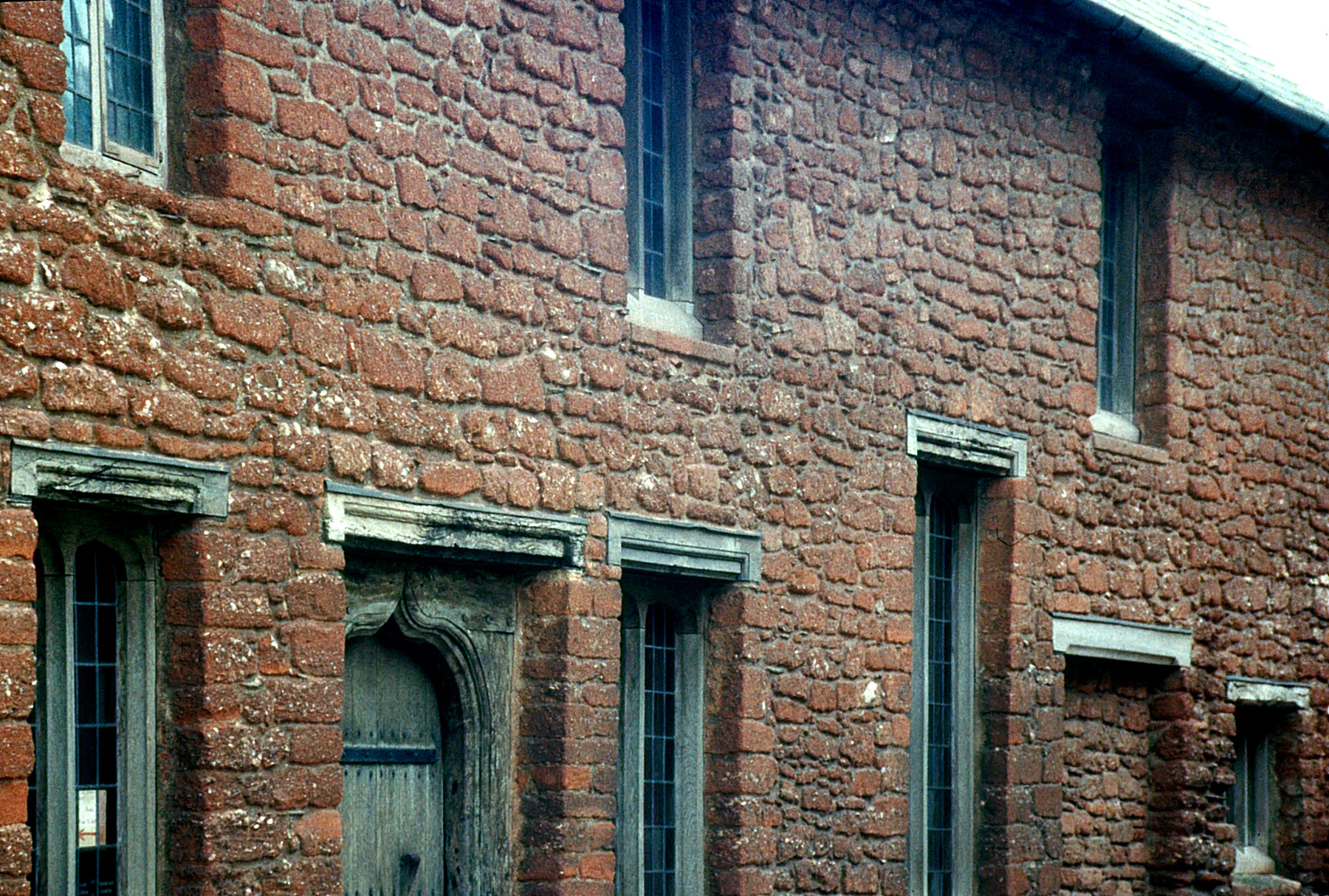 Kirkham House in Paignton, South-Devon/UK; front of the house with entrance